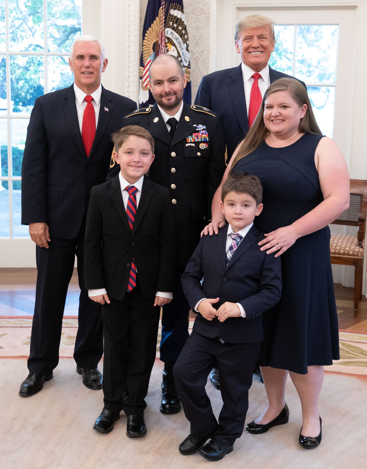 President Donald J. Trump and Vice President Mike Pence pose for a photo with Medal of Honor recipient retired U.S. Army Staff Sgt. Ronald J. Shurer II, his wife Miranda and sons Cameron and Tyler Monday, Oct. 1, 2018, in the Oval Office of the White House.(Official White House Photo by Shealah Craighead)